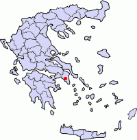 locator map, based on Image:Prefectures Greece grey.png